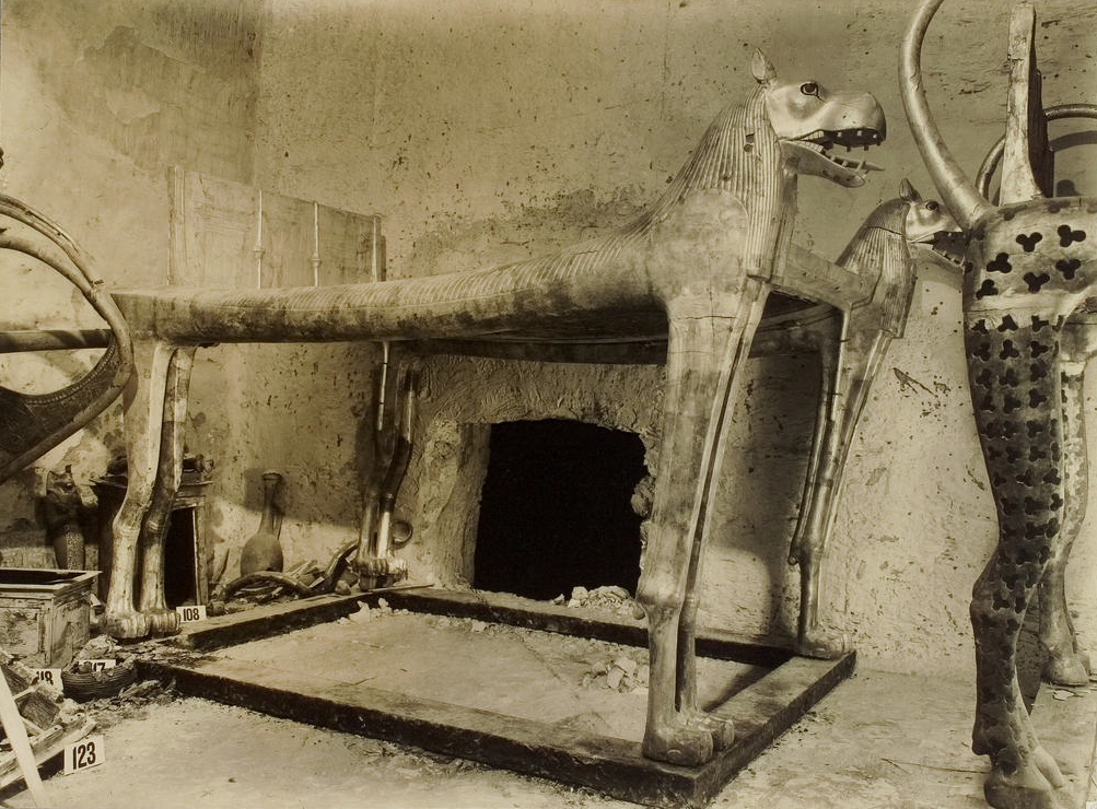 Harry Burton: Tutankhamun tomb photographs: a photographic record in 5 albums containing 490 original photographic prints ; representing the excavations of the tomb of Tutankhamun and its contents. Vol. 2